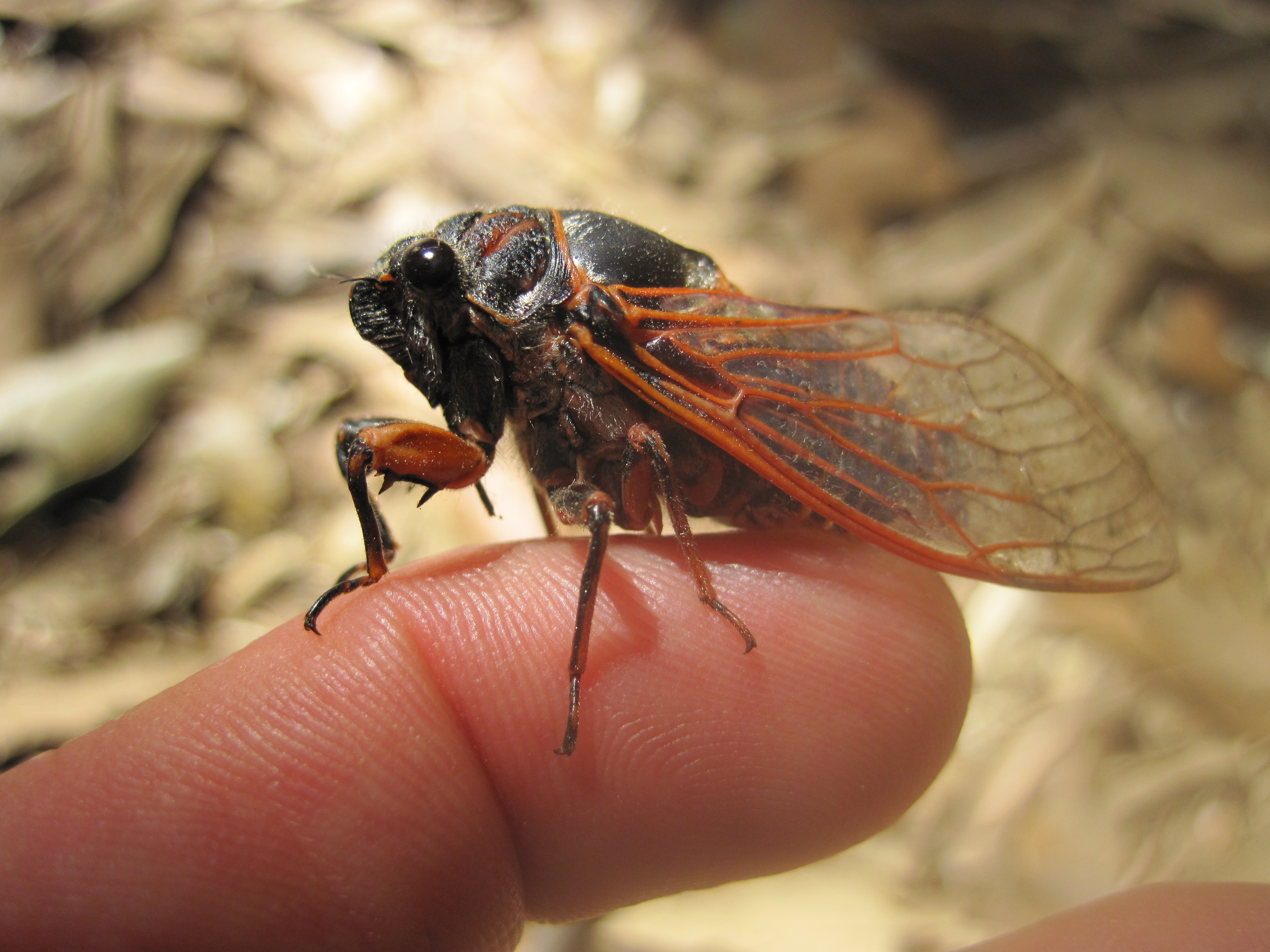 Tibicen haematodes in Populonia (Livorno, Italy).